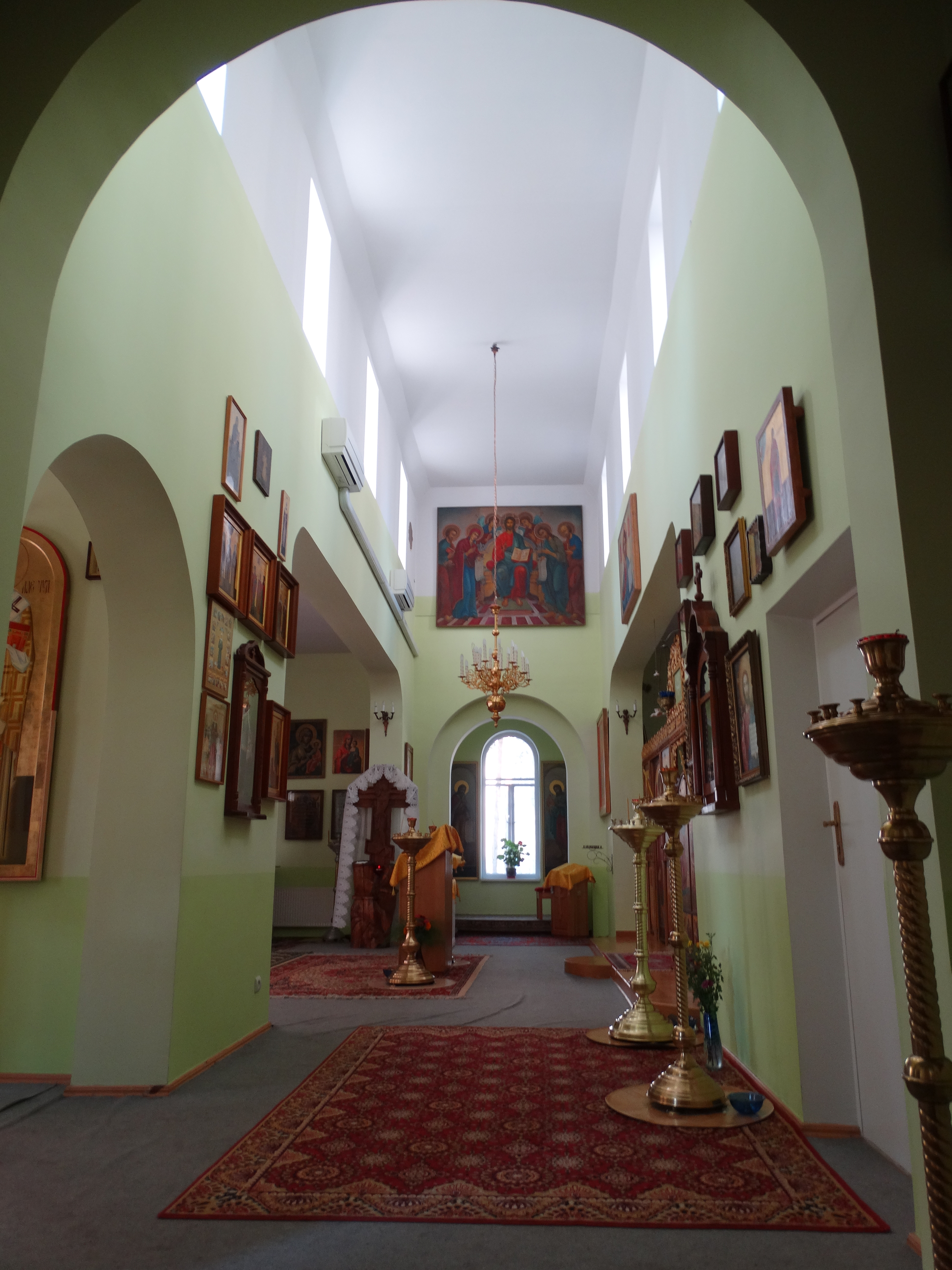 Interior, Orthodox Church of St. John the Baptist, Visaginas, Lithuania